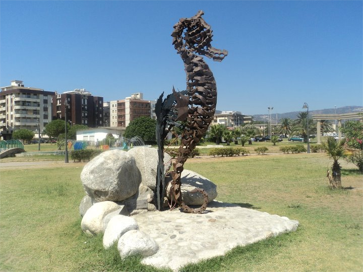 Panoramic of Soverato